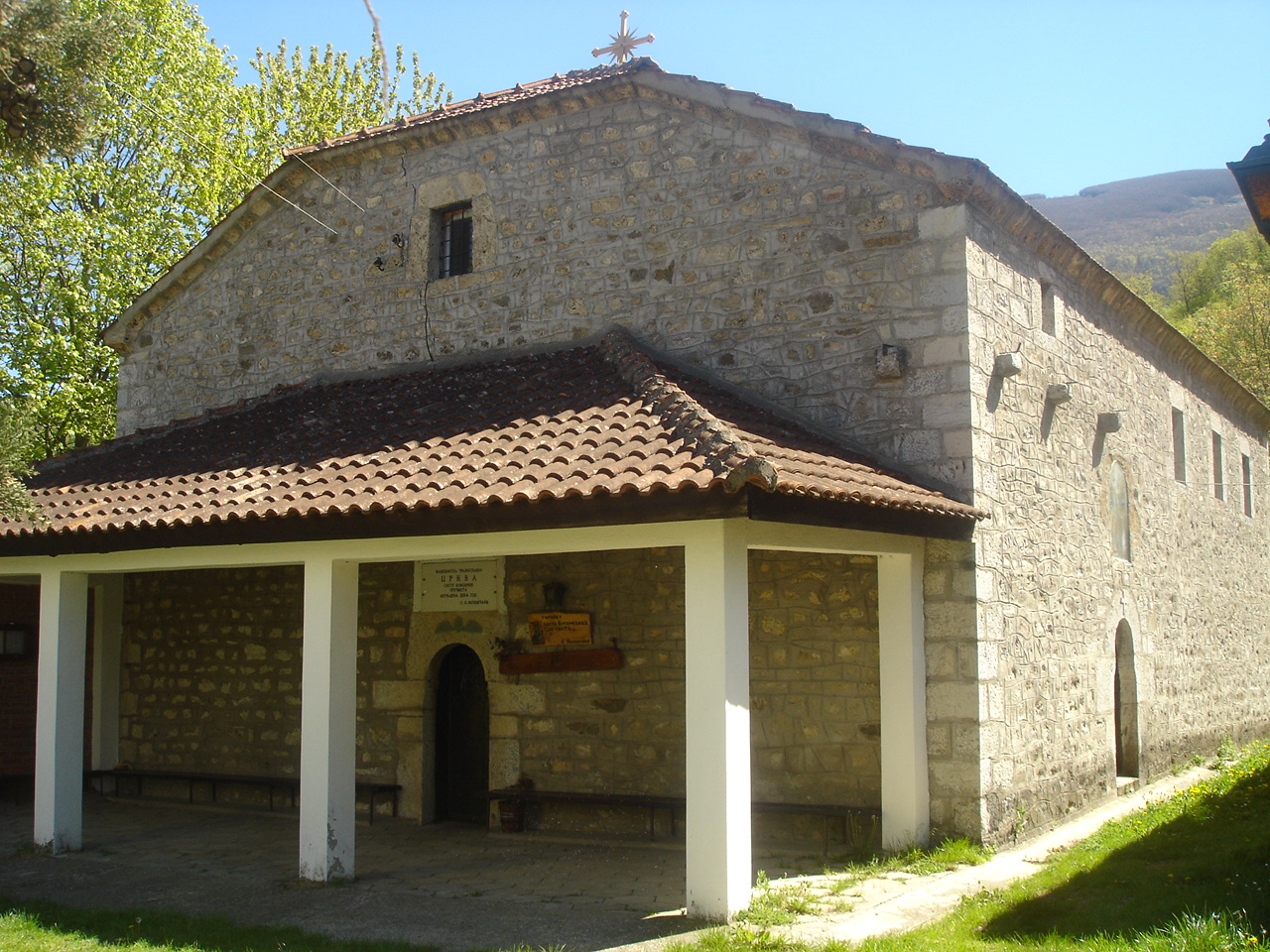 The church in the village of Dolno Melničani, near Debar, Macedonia